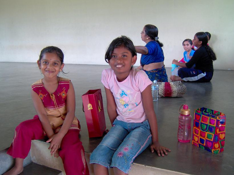 Tamil girls, Seremban, Malaysia